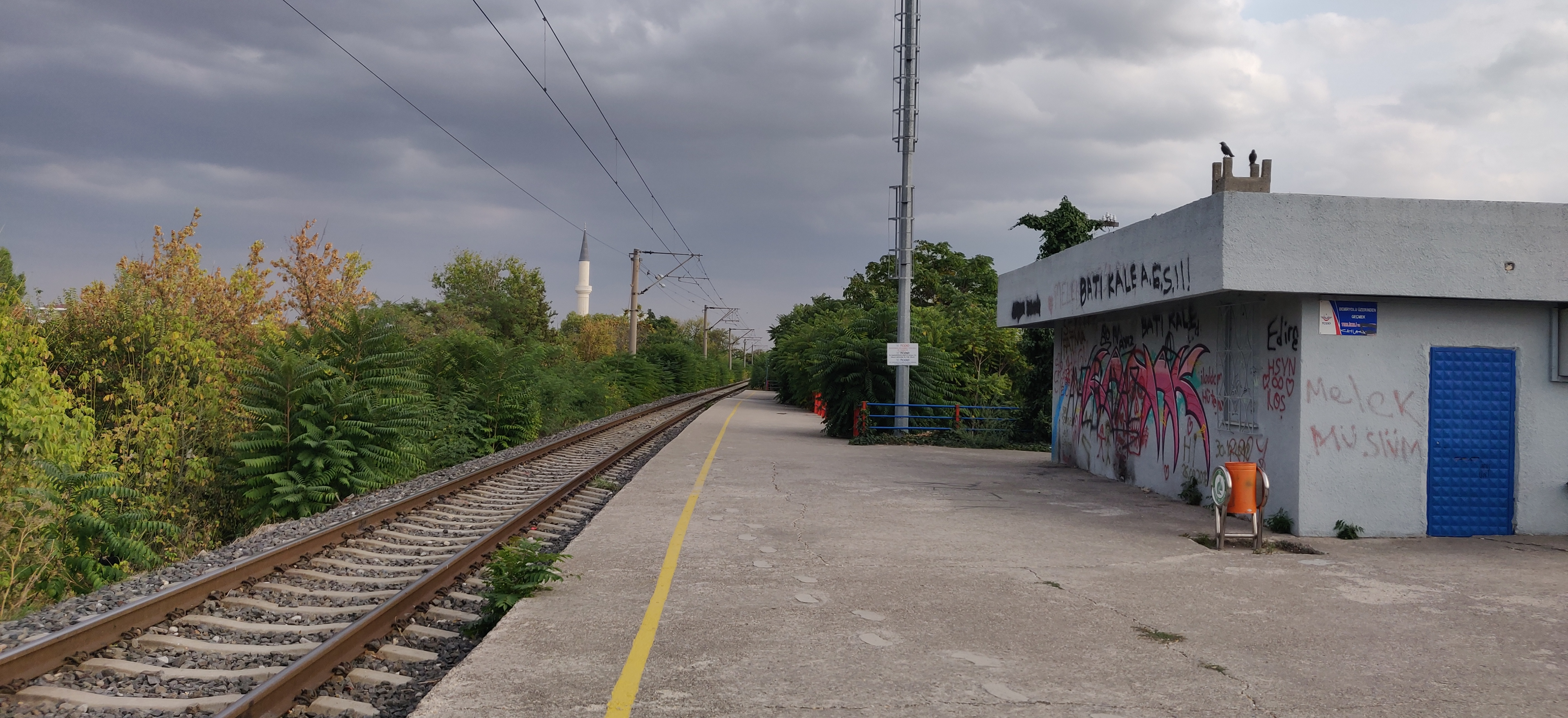 Edirne sehir railway station.